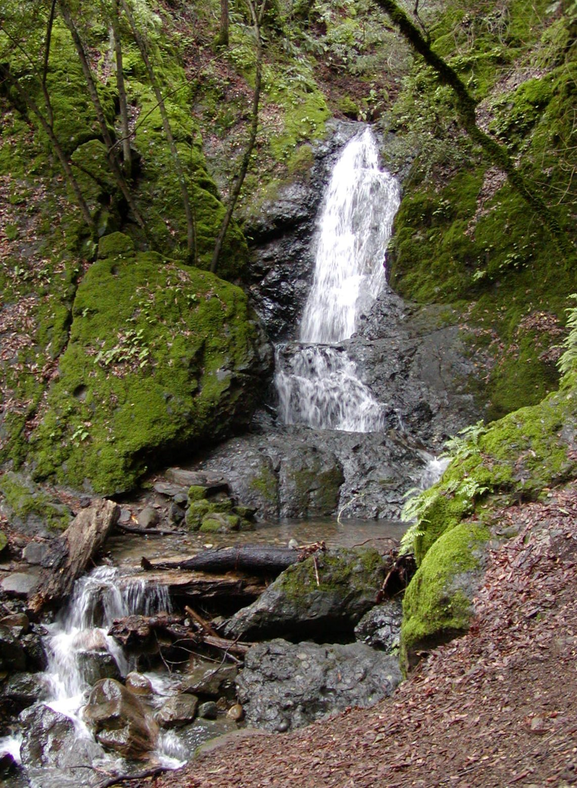 Basin Falls, Uvas Canyon County Park, Santa Clara County, California.